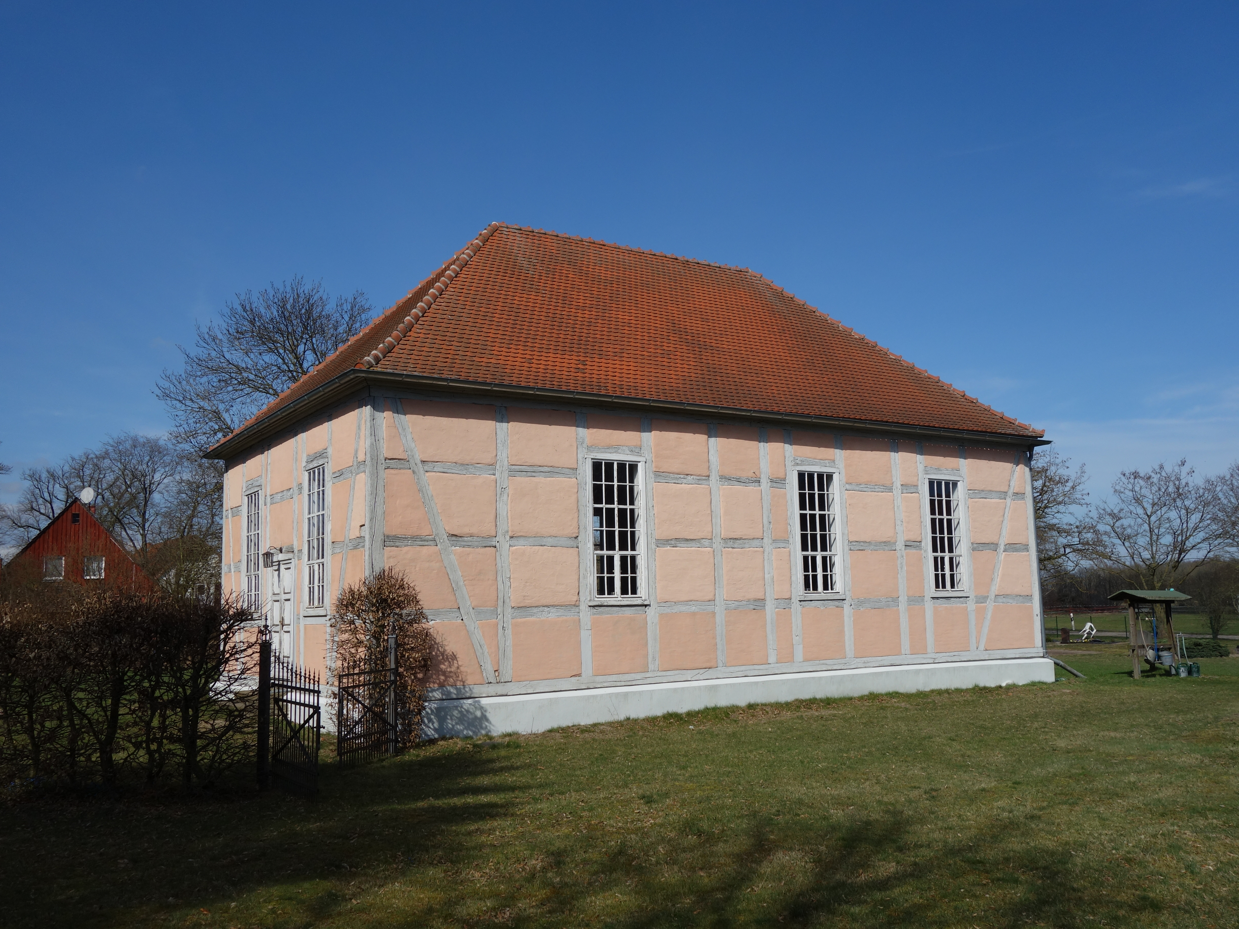 South-eastern view of Roddahn church, Neustadt (Dosse) municipality, Ostprignitz-Ruppin district, Brandenburg state, Germany